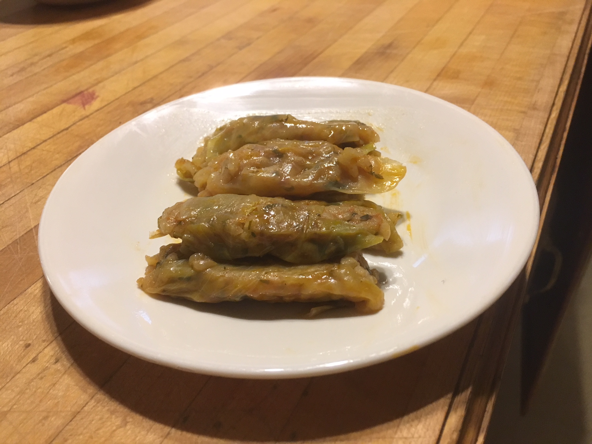 Mahshi koromb (Egyptian-style cabbage rolls). Prepared in an Egyptian-American household, Troy, Michigan, U.S., December 2017